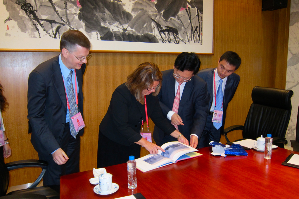 Lieutenant Governor Yvonne Prettner Solon giving the Brandenburg book to the Vice Governor of Shannxi Province, Jin Junhai.